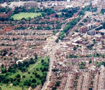 Aerial view across East Reading My father took this photo in the 80's when he had a small aircraft flight as a birthday present.